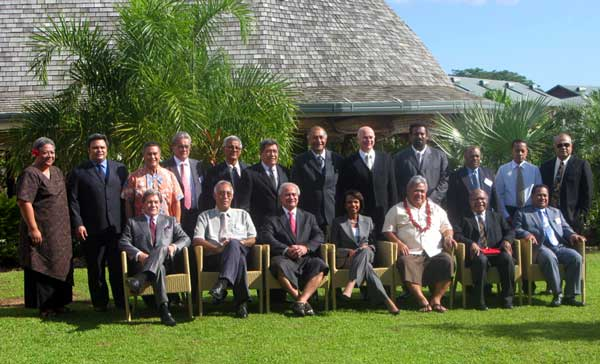 US Secretary of State Condoleezza Rice (center) attends a meeting with Pacific Islands foreign ministers at the Aggie’s Lagoon Resort in Mulifanua, Apia, Samoa. In attendance were fifteen foreign ministers, all members of the Pacific Islands Forum Secretariat, including delegates from Australia, Fiji, Samoa, the Marshall Islands, Nauru, Tonga, Tuvalu, Guam, New Zealand, the Solomon Islands, Vanuatu, Palau and Papua New Guinea.